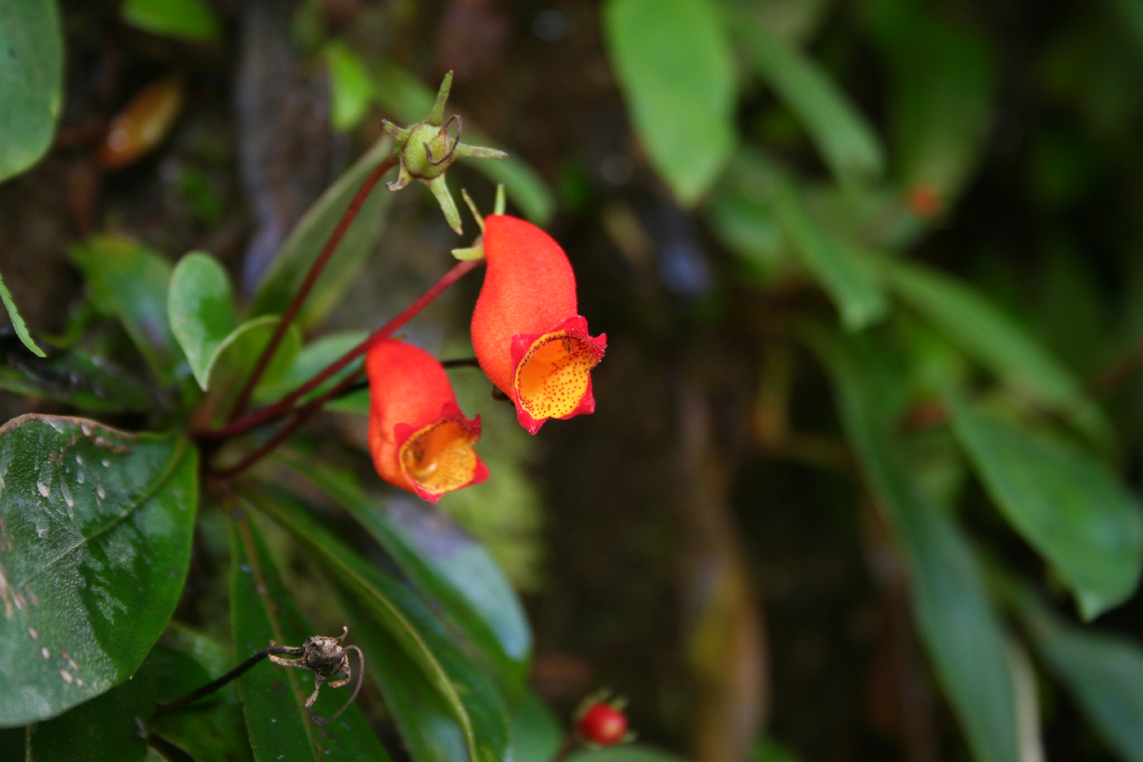 In Canyon Heredia outside Monteagudo, Bolivia. It particularly seemed to like the seepy rock faces along the road. The flowers on this thing are phenomenal!